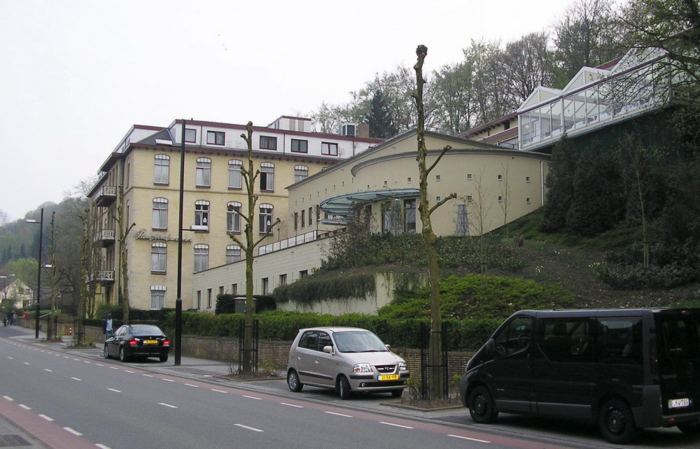 Valkenburg aan de Geul, the Netherlands. View of Park Hotel Rooding, formerly Huis ter Geul.